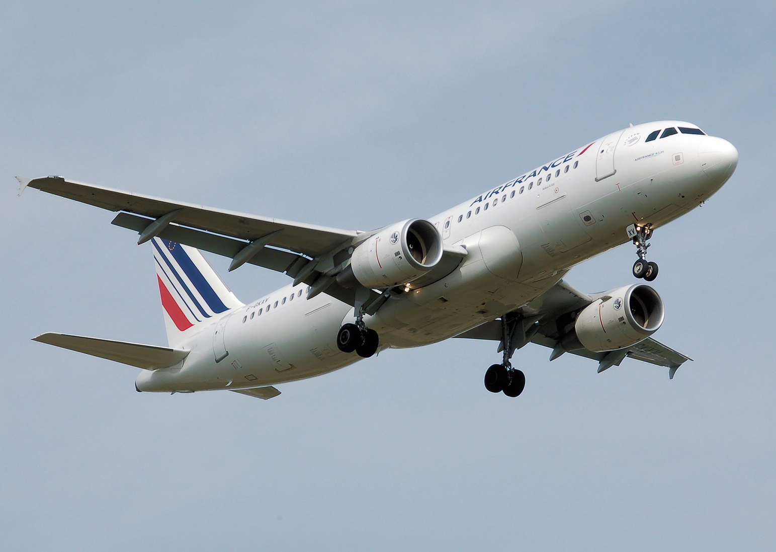 Air France Airbus A320-214 (F-GKXV) landing at London Heathrow Airport (LHR), England.